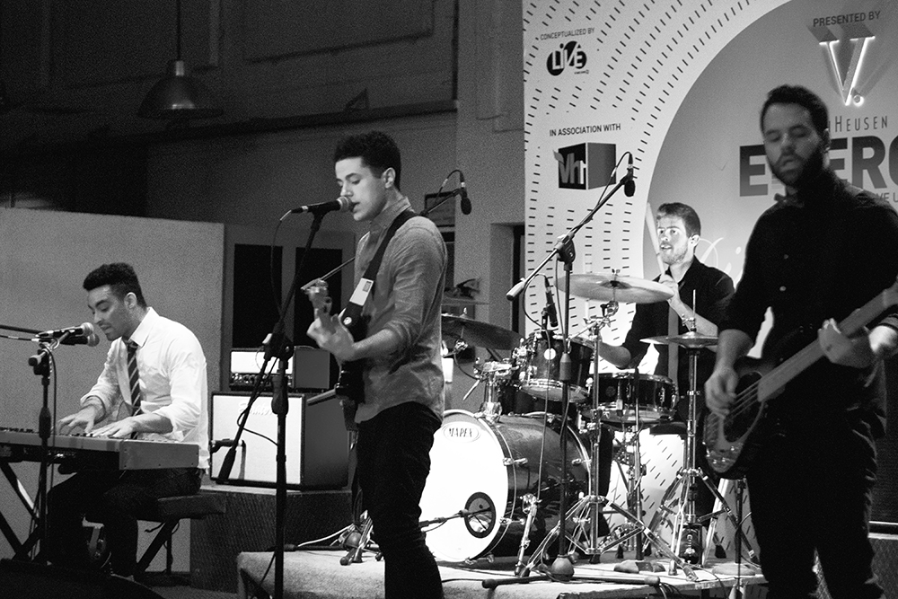 Dinner and a Suit playing at CounterCulture, Bangalore, 16th November, 2013